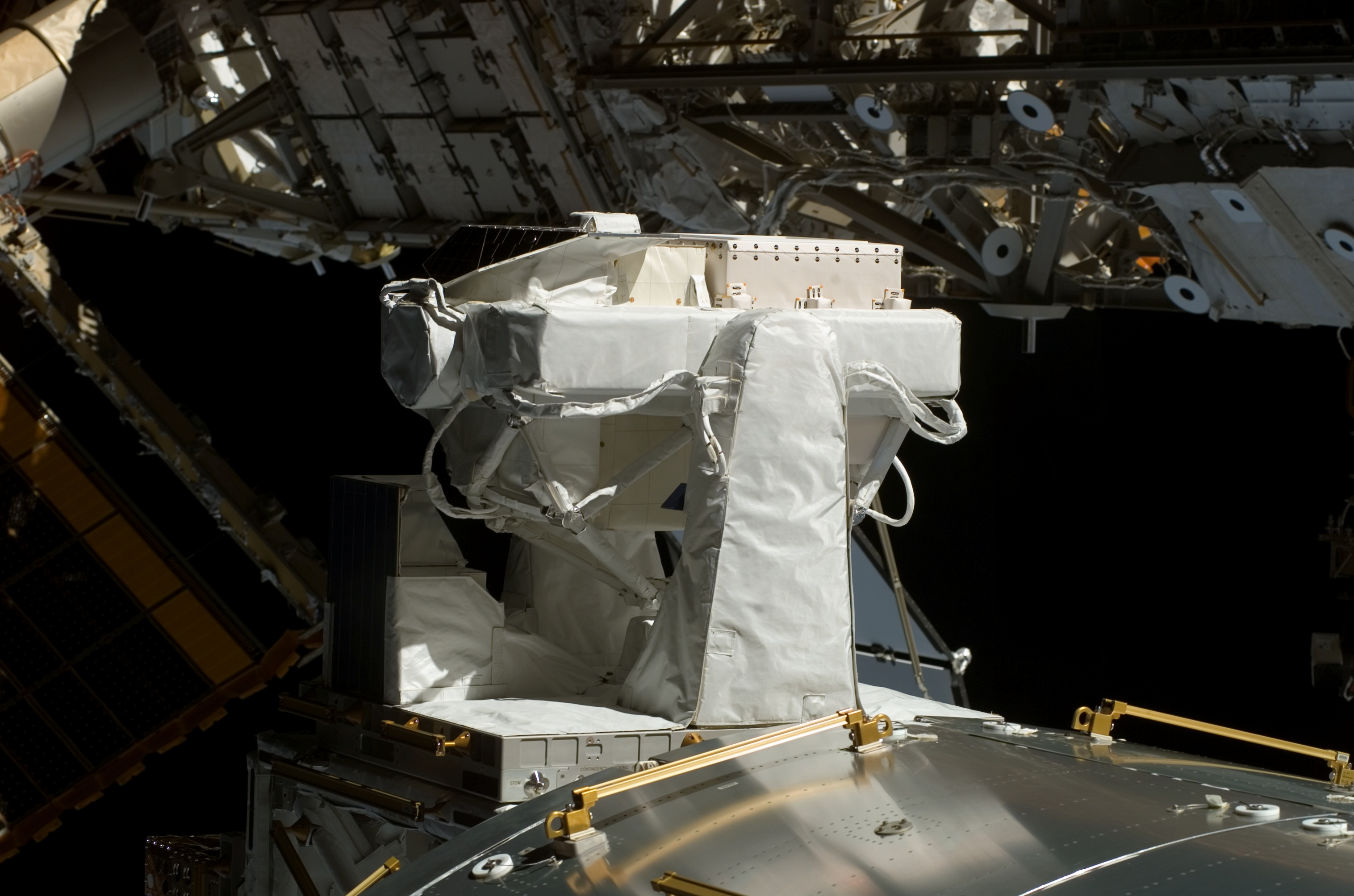 Solar Montoring Observatory View of Sun Monitoring on the External Payload Facility of Columbus (Solar). Photo was taken during Expedition 16/STS-122 joint operations.